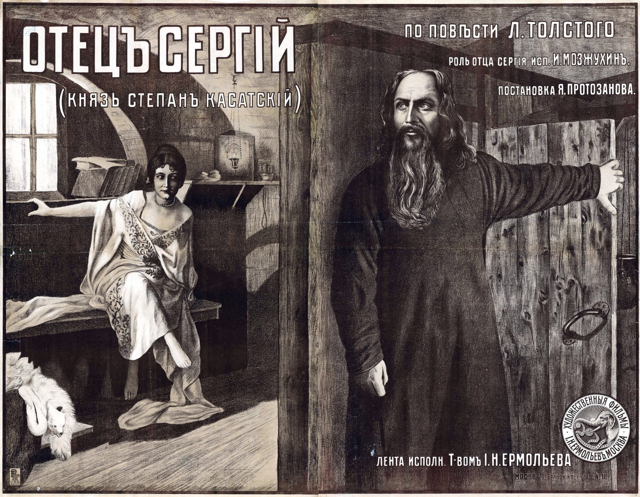 Poster of Leon Tolstoi's "Father Sergius".